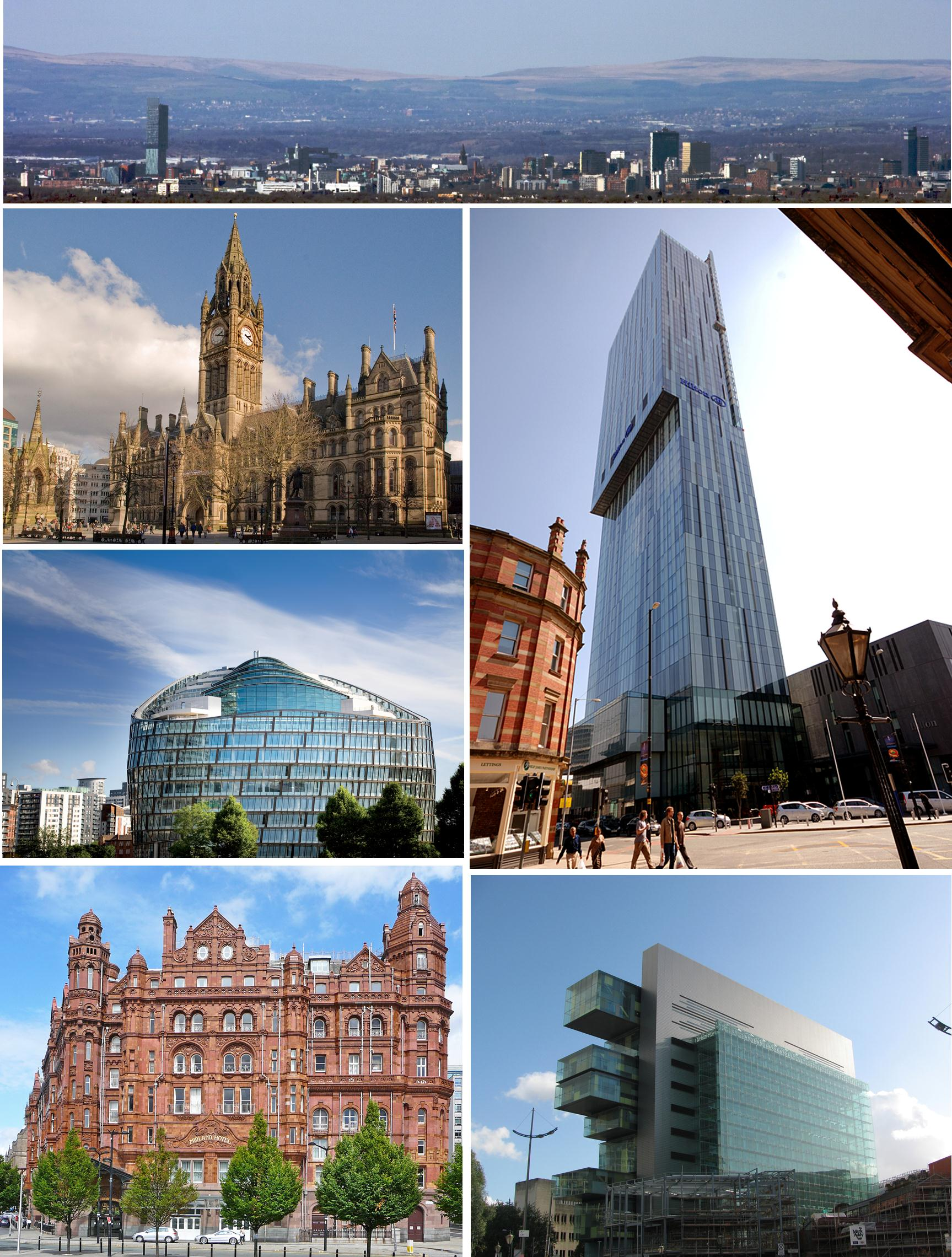 Montage of Manchester. From top left to bottom right: Panorama of Manchester skyline from the south-west looking towards the West Pennine Moors Manchester Town Hall Beetham Tower, Manchester One Angel Square Midland Hotel Civil Justice Centre